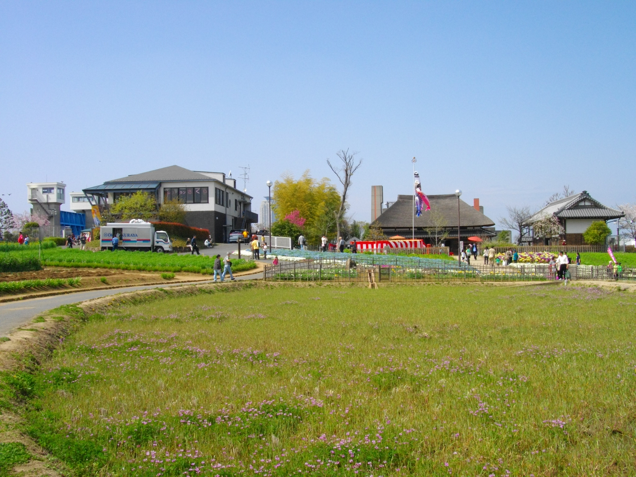 Adachi Urban Agricultural Park